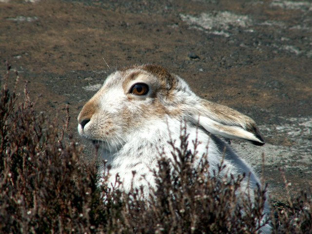 A Mountain Hare (Lepus timidus) Basking in the easter sunshine.